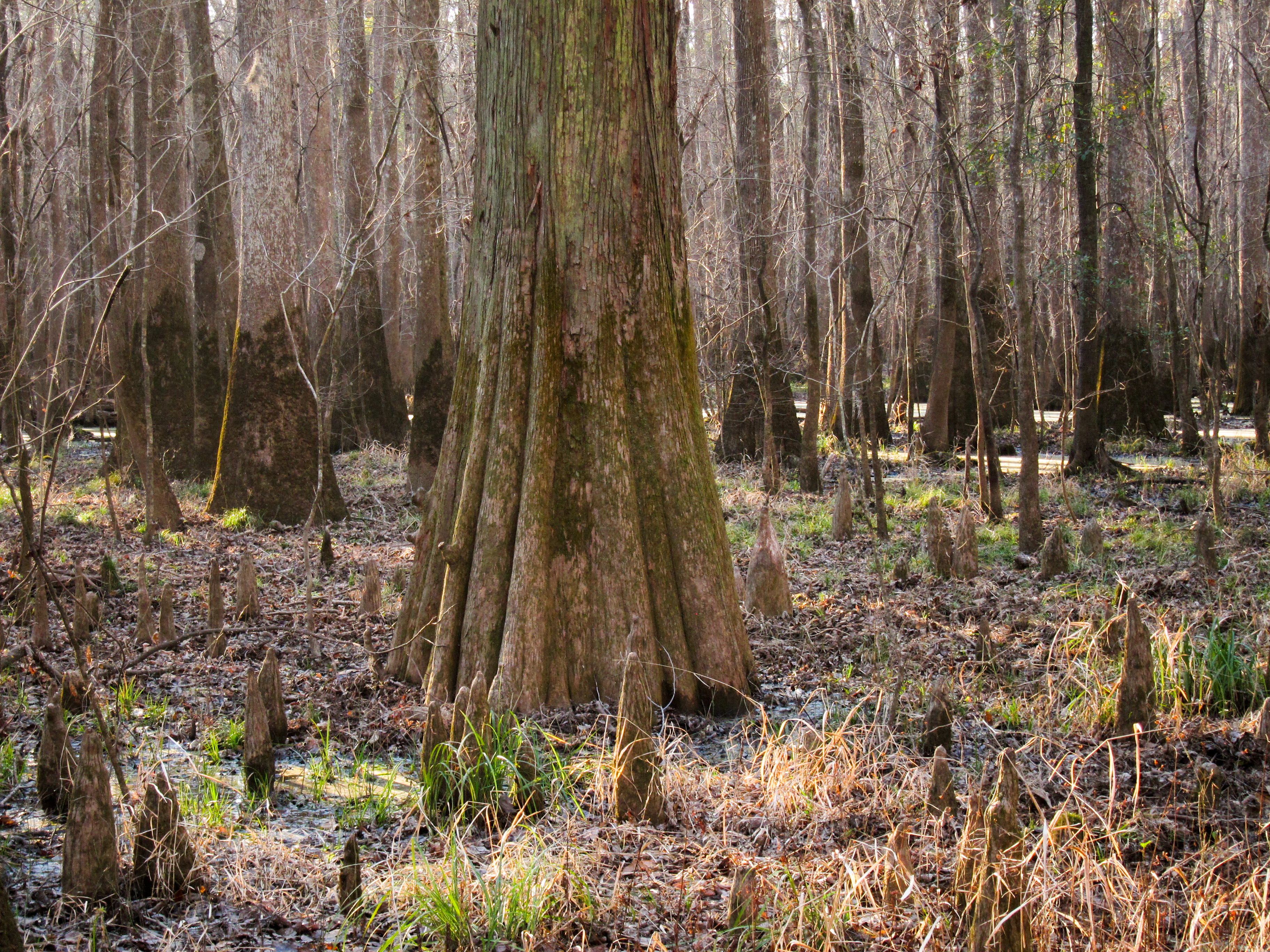 Baldcypress (Taxodium distichum) on Congaree National Park Low Boardwalk trail